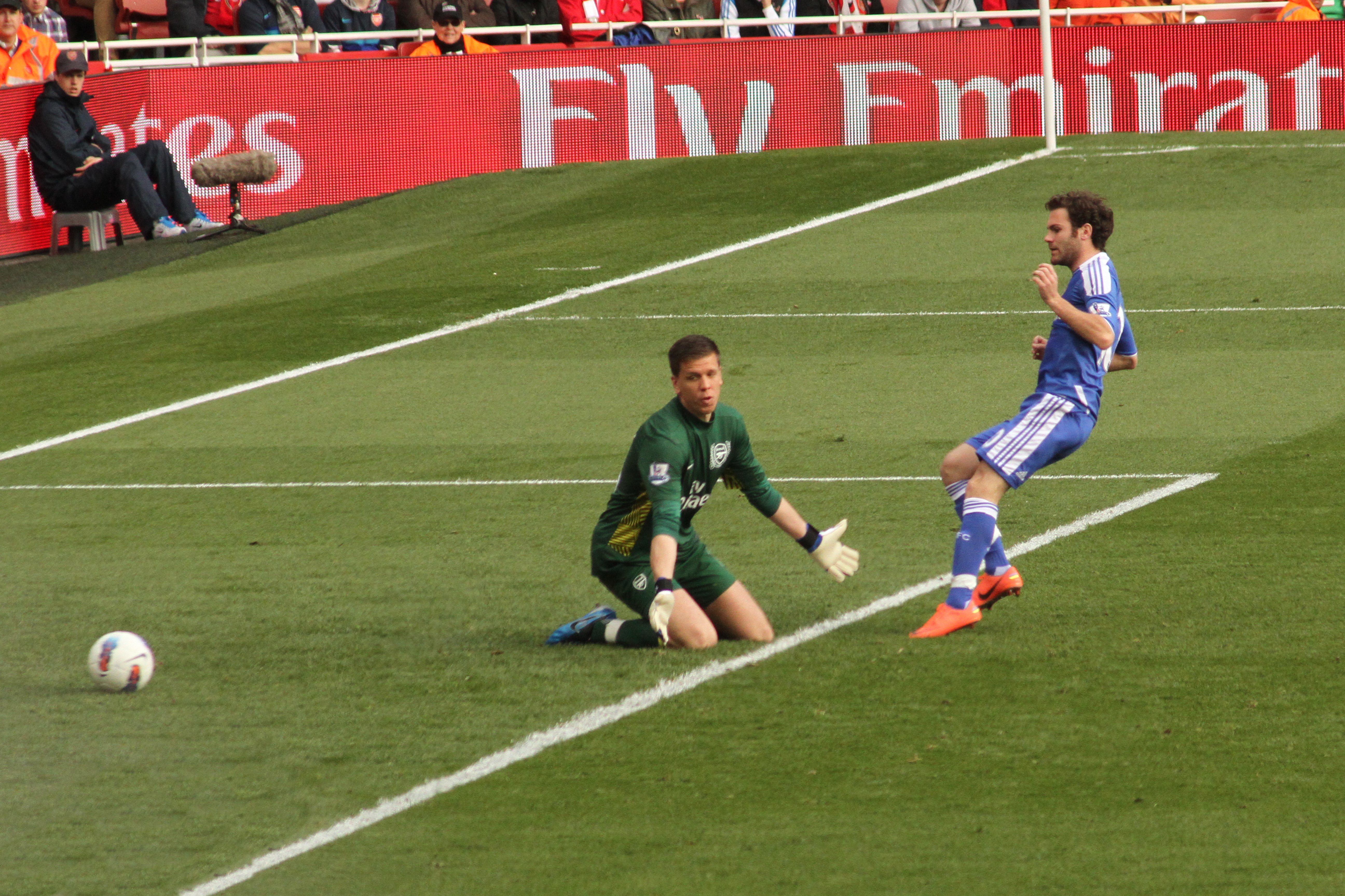 Wojciech Szczesny & Juan Mata, Arsenal vs Chelsea, 2012